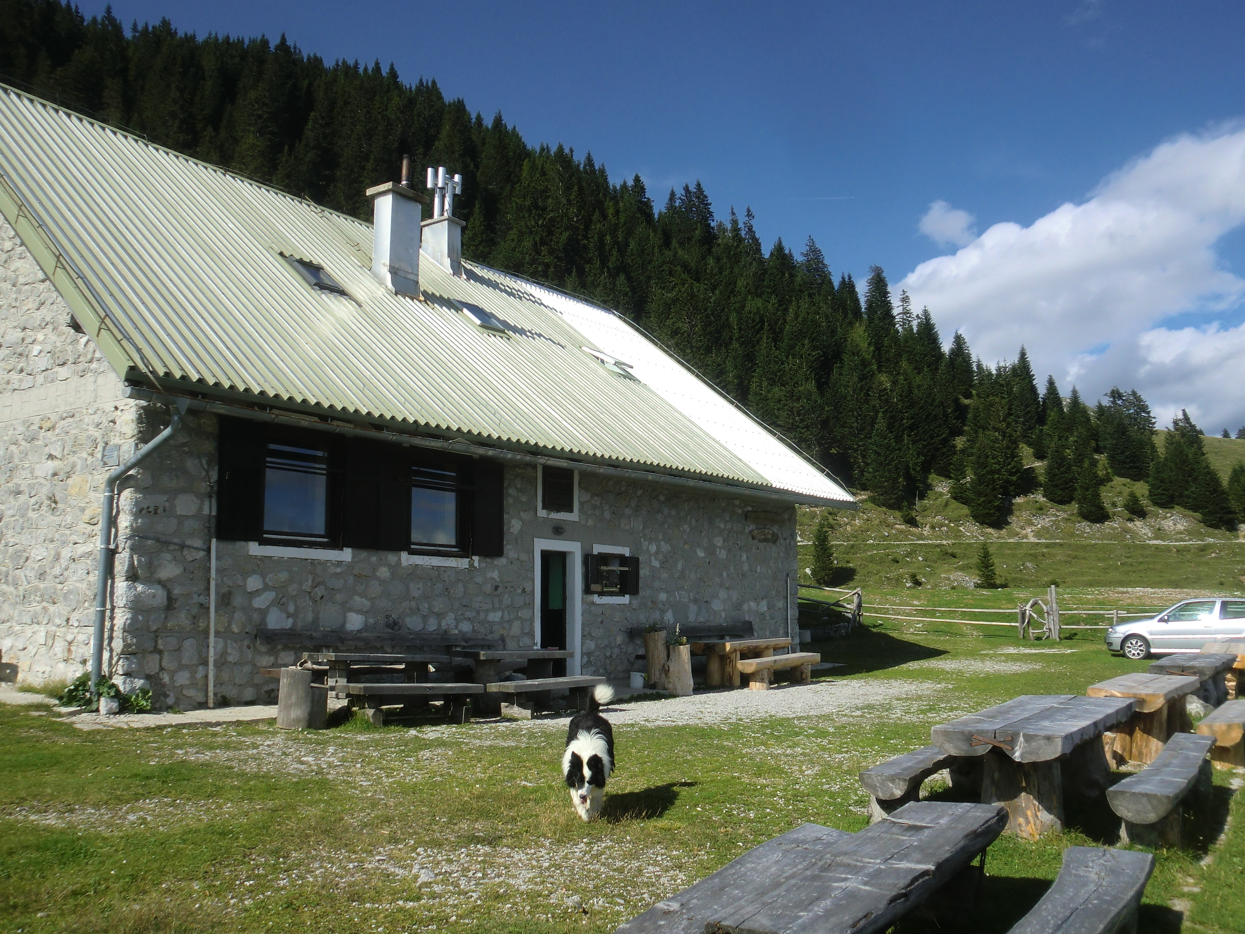 The Lodge at the Šija Pasture (Karawanks).